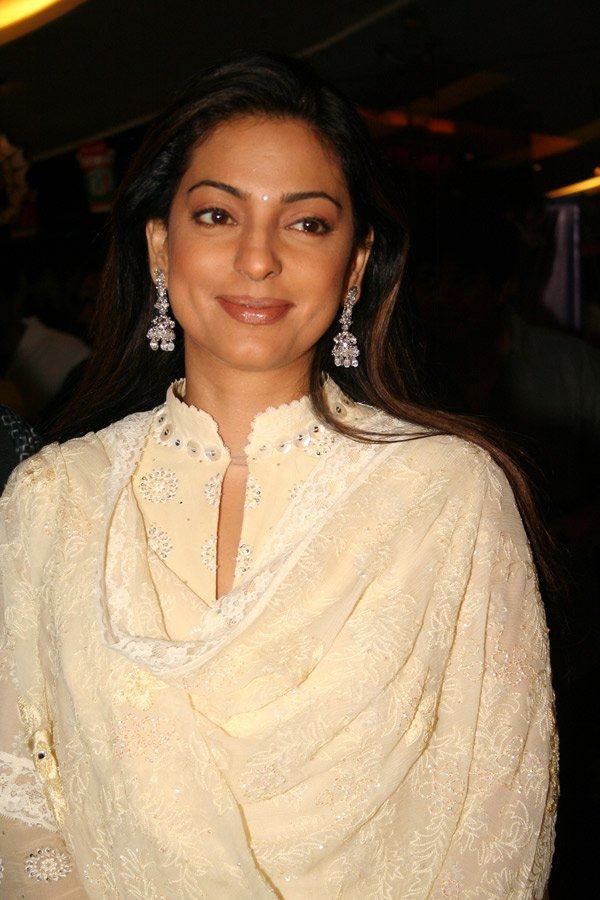 Audio release of Ganesh Acharya's Swami